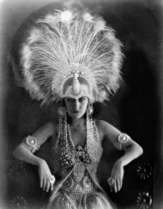 Publicity photo of Gloria Swanson for Male and Female (1919 film), directed by Cecil B. DeMille.